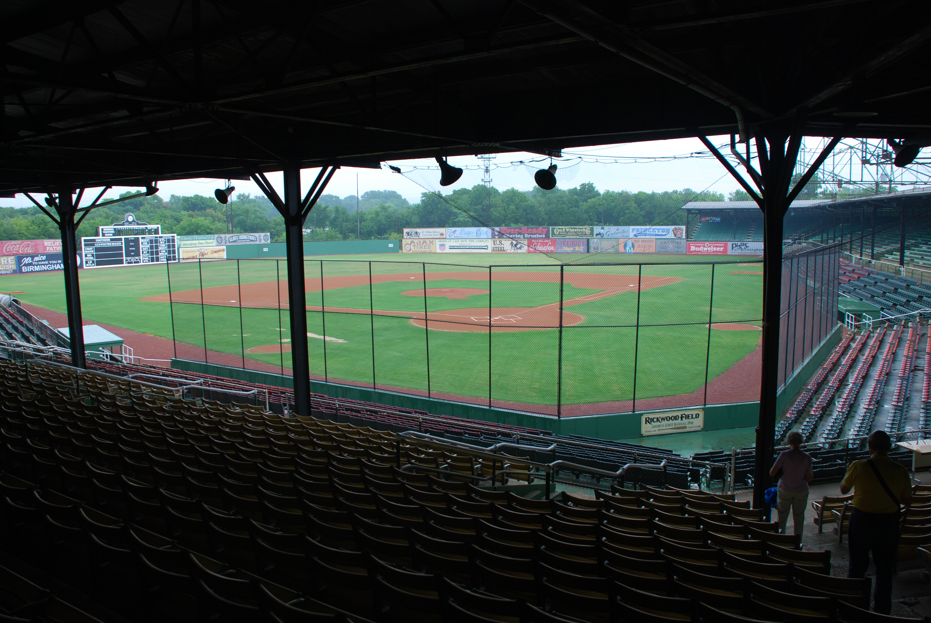 Rickwood Field, Alabama, 2007